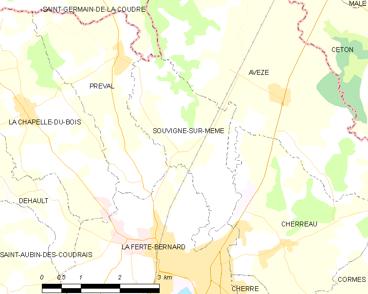 Map of French municipality